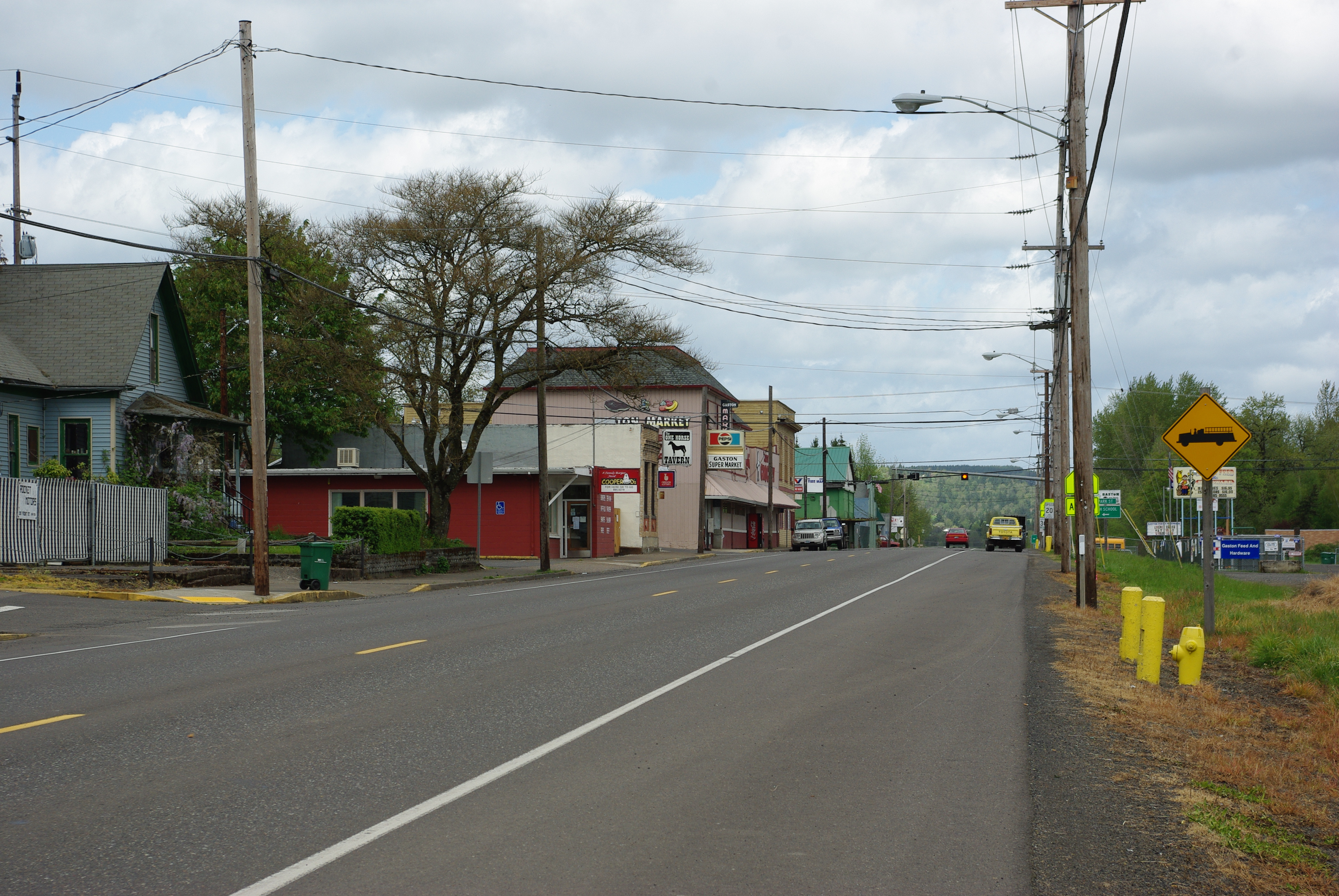 Main strip/Hwy 47 barn in Gaston, Oregon.